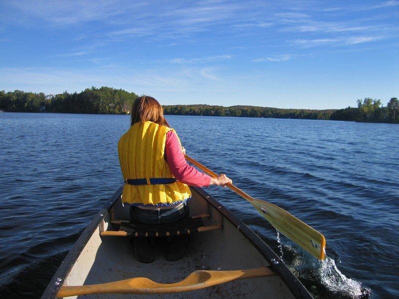 Paudash Boating